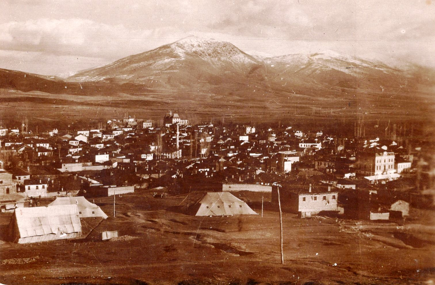 Postcard of Peć, 1920's This media file is produced by Wikipedian in Residence in Category:Wikipedian in Residence at DARM in 2016.